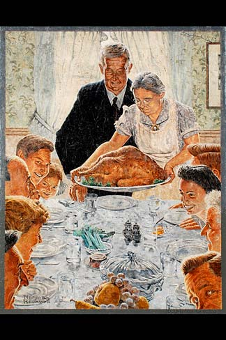 A mural replica in Silverton of one of Norman Rockwell's "Four Freedoms" paintings. This one depicts freedom from want.